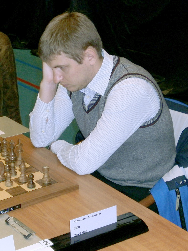 GM Alexander Kovchan playing in the Groningen Chess Festival 2012 in Groningen (the Netherlands)